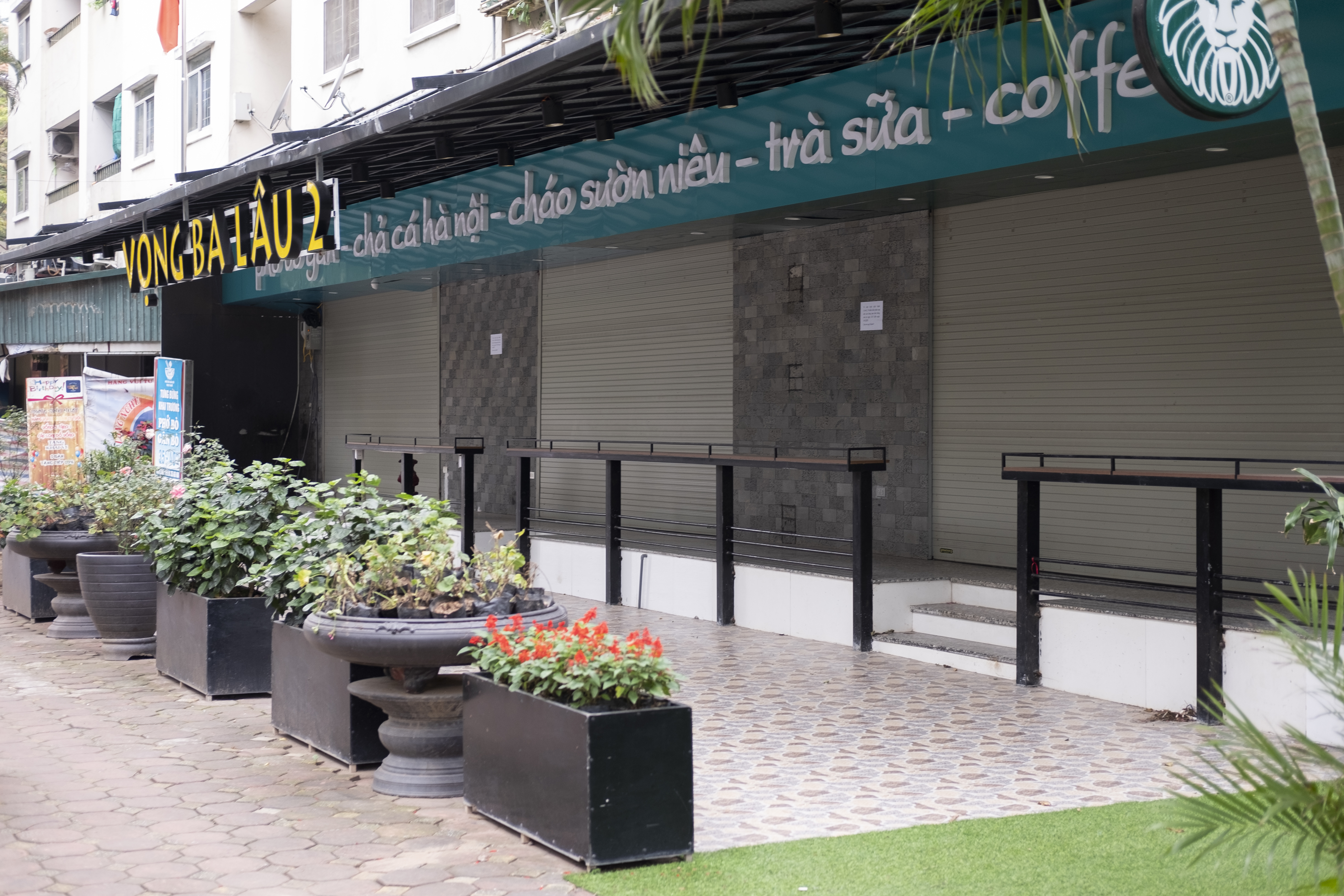 Vọng Ba Lâu 2, Hà Nội.